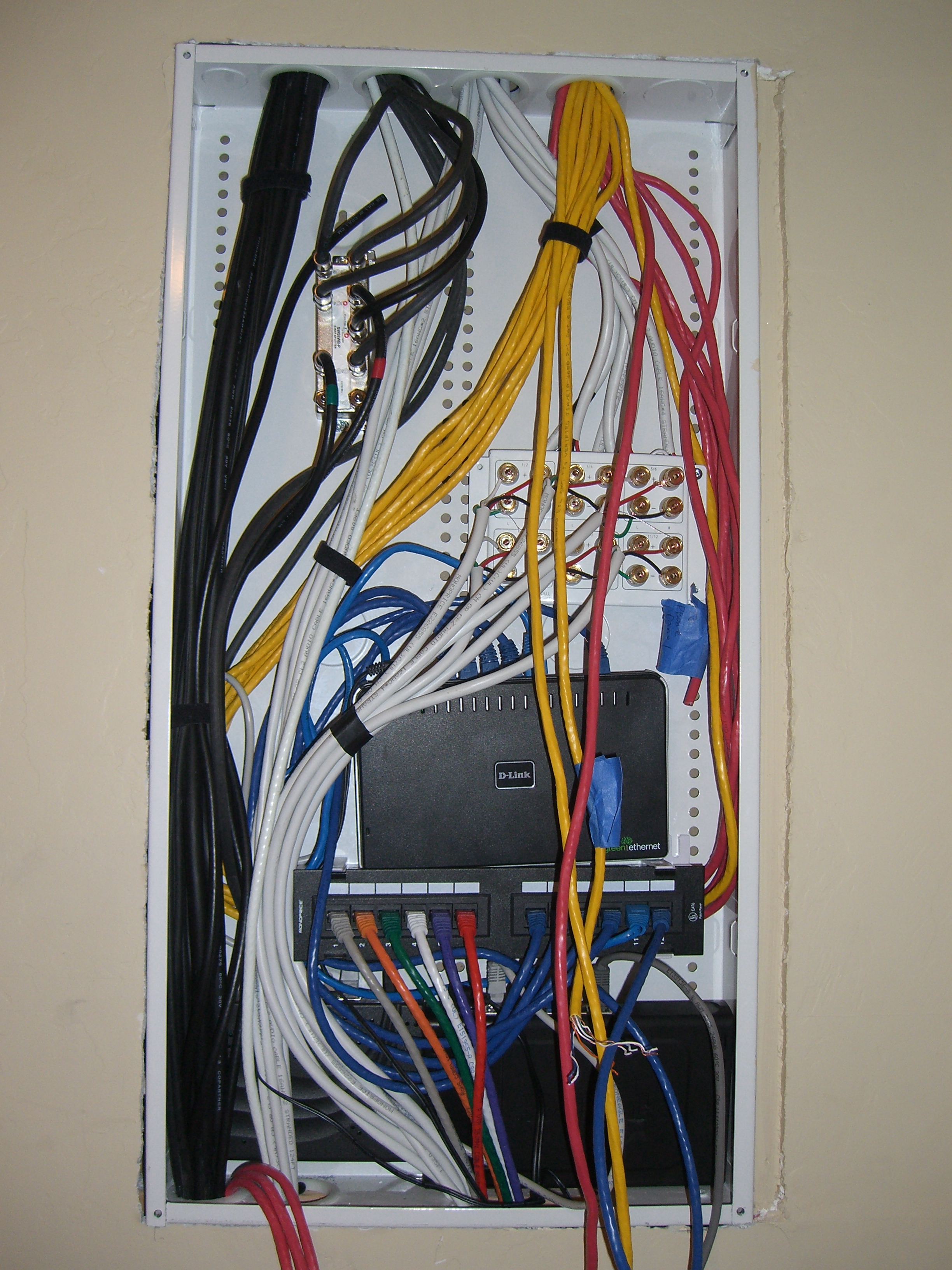 Digital home patch panel